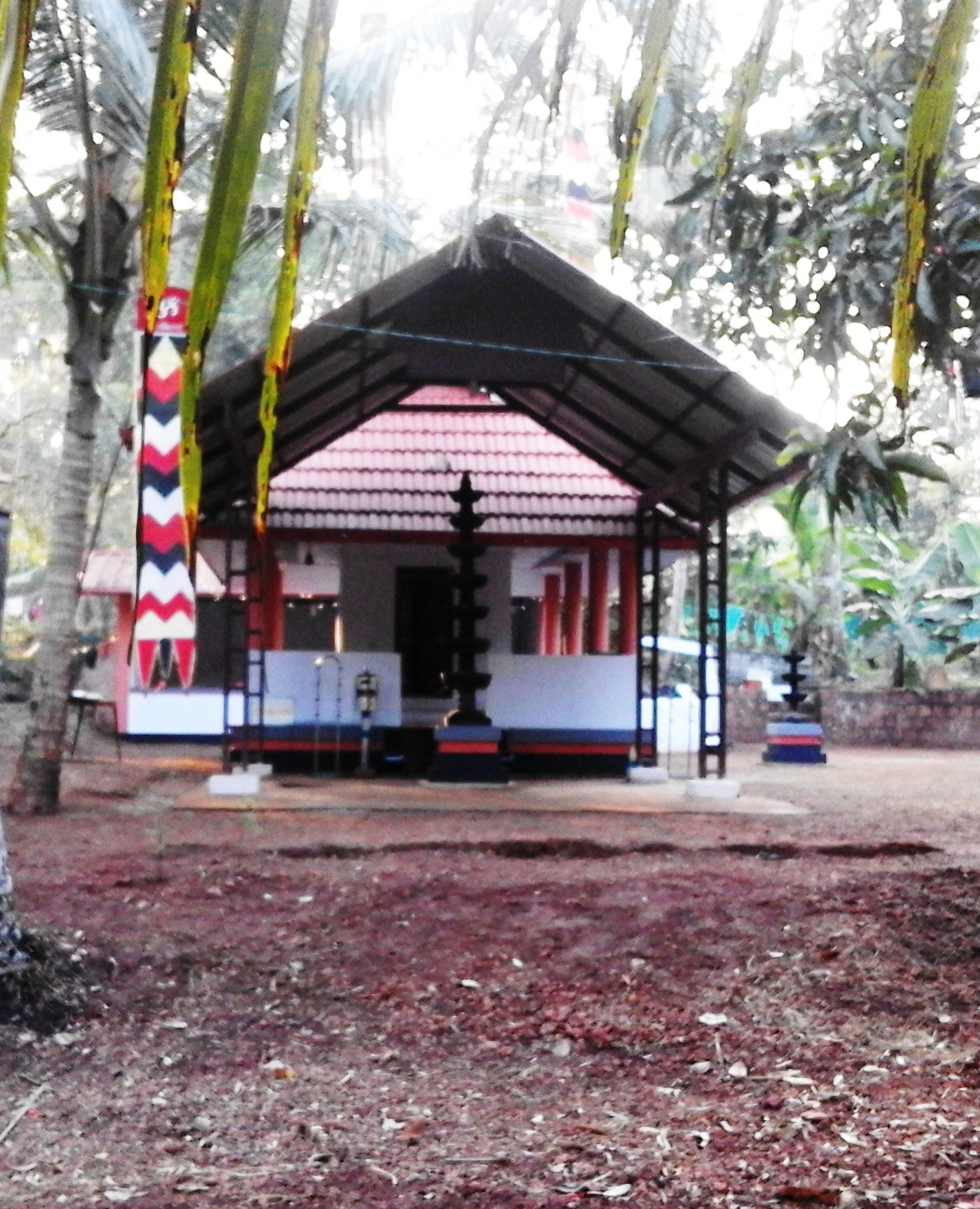 Tenhippalam, Malappuram District, Kerala, India